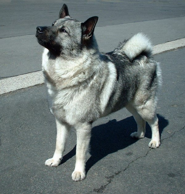 Norvin Son of Storm owned by Nichola Herron. Photo by sannse at the City of Birmingham Championship Dog Show, 29th August 2003